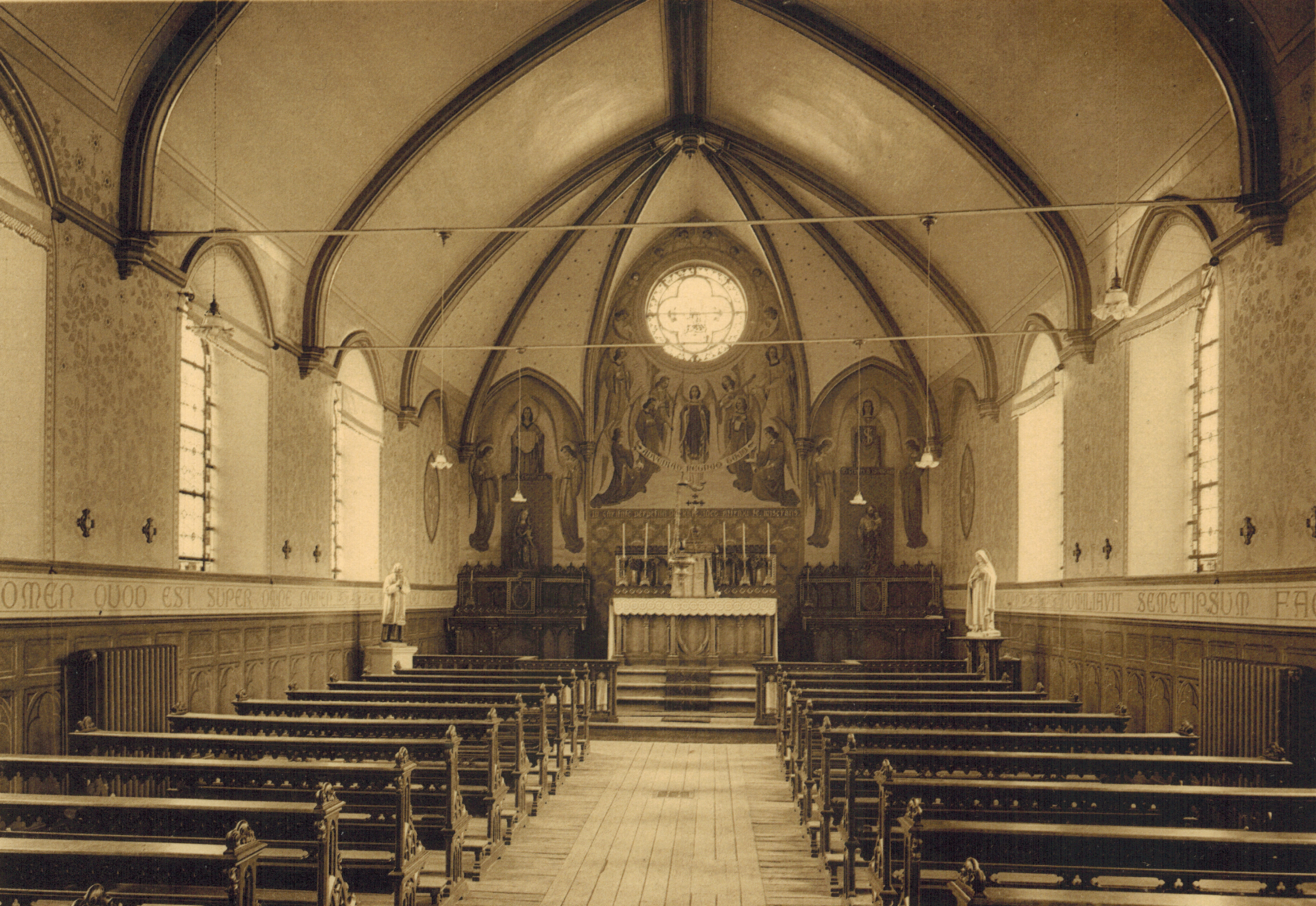 Bonne-Espérance, Vellereille-les-Brayeux (Belgium), old chapel of the Normal school and the philosophy section of the Minor Seminary (1878), now demolished.